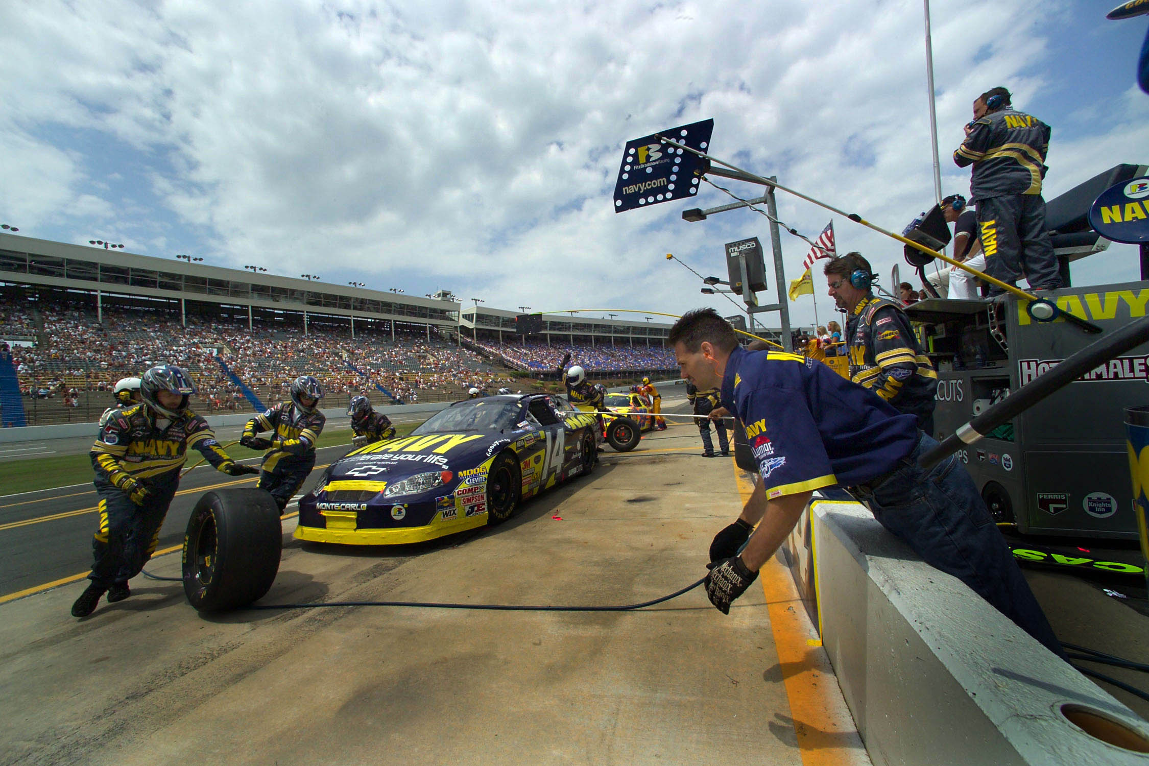 Charlotte, N.C., (May 29, 2004) - Team members of the FitzBradshaw NASCAR Busch Race Team change all four tires during a pit stop on driver Casey Atwood's Navy sponsored NASCAR Bush Series No. 14 Chevrolet Monte Carlo, during the NASCAR Busch Series, Carquest Auto Parts 300 at Lowe's Motor Speedway in Charlotte, N.C. U.S. Navy photo by Chief Photographer's Mate Johnny Bivera (RELEASED)